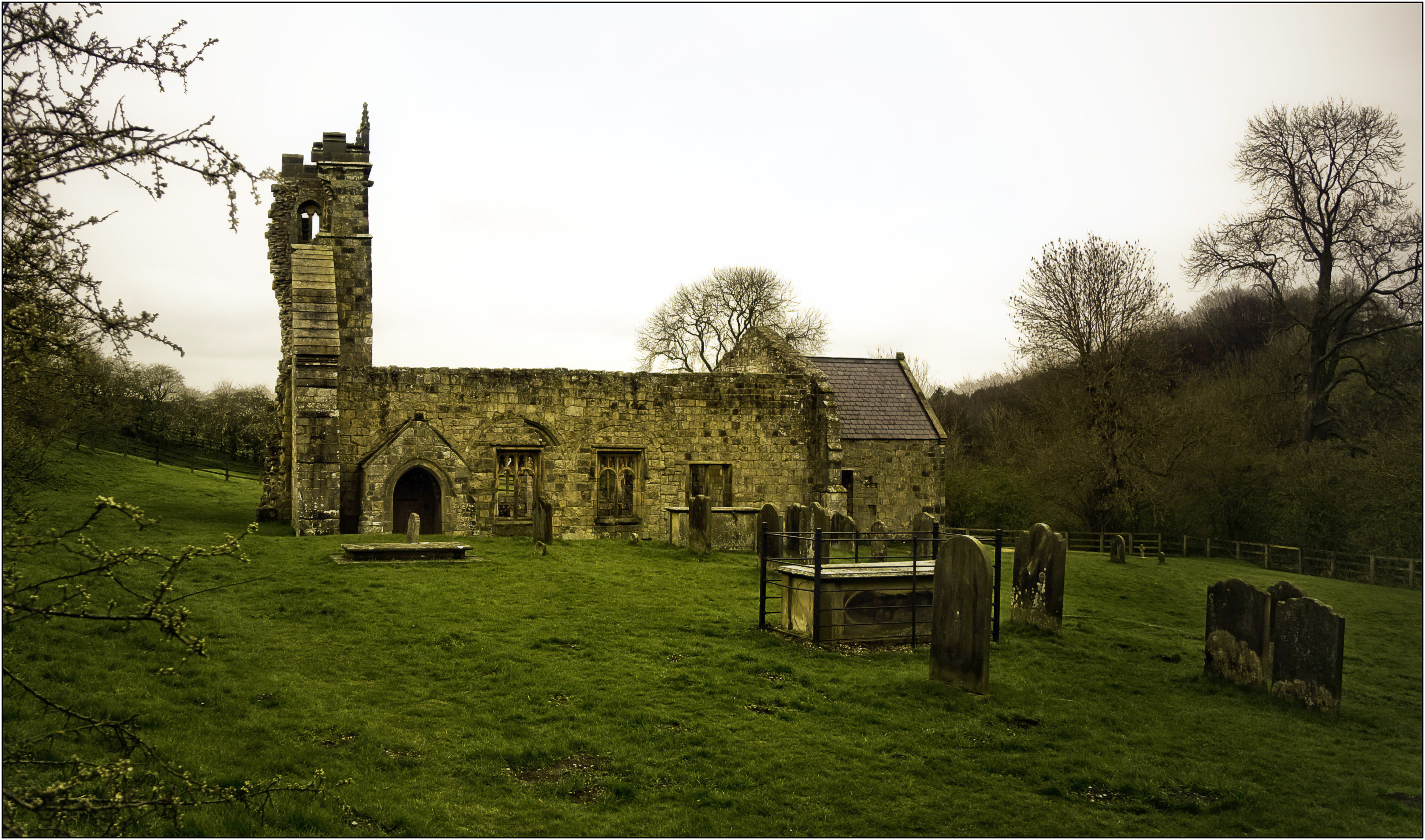 Wharram Percy in Yorkshire